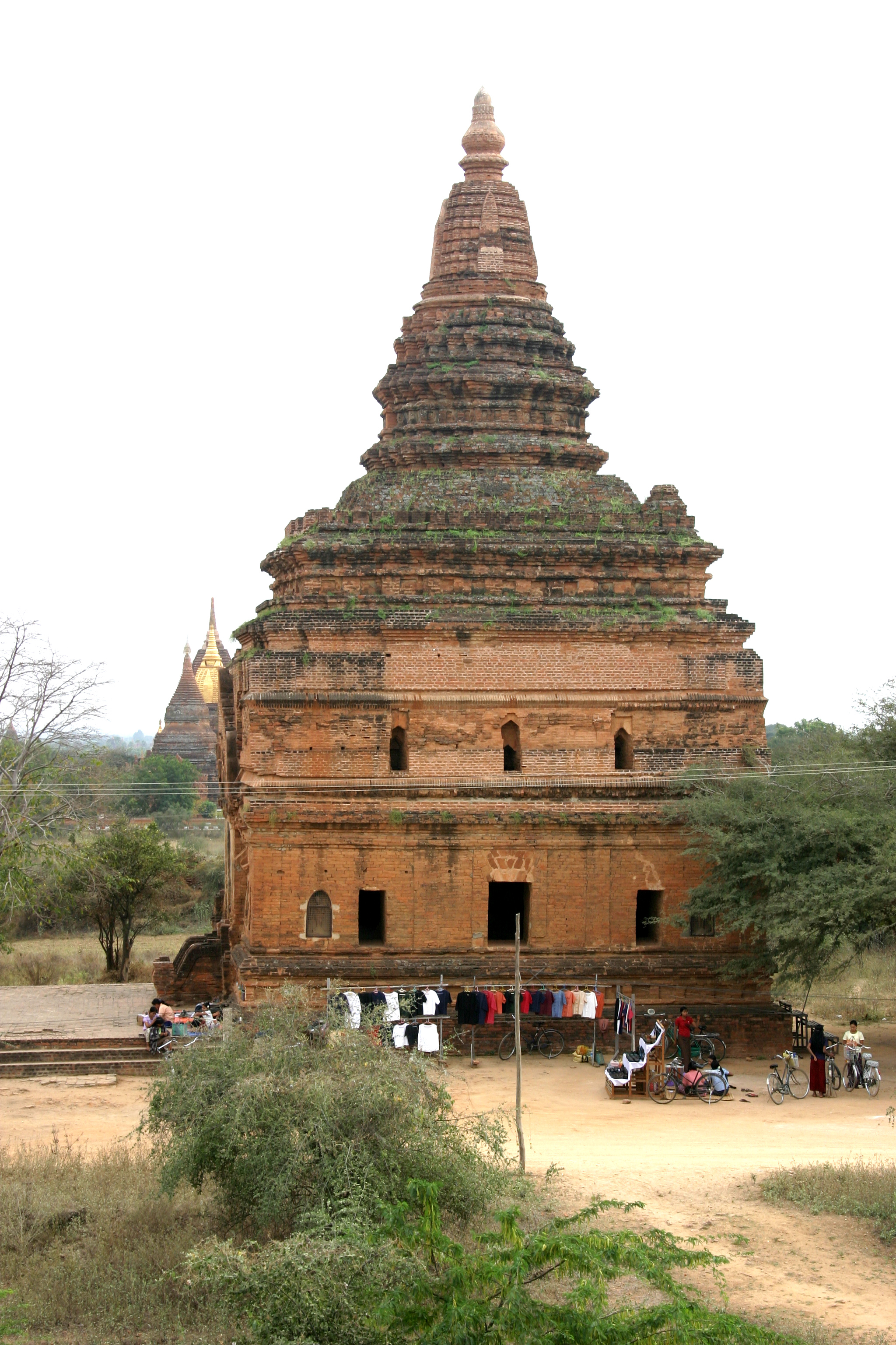 Nat Hlaung Kyaung temple in Bagan, Myanmar.